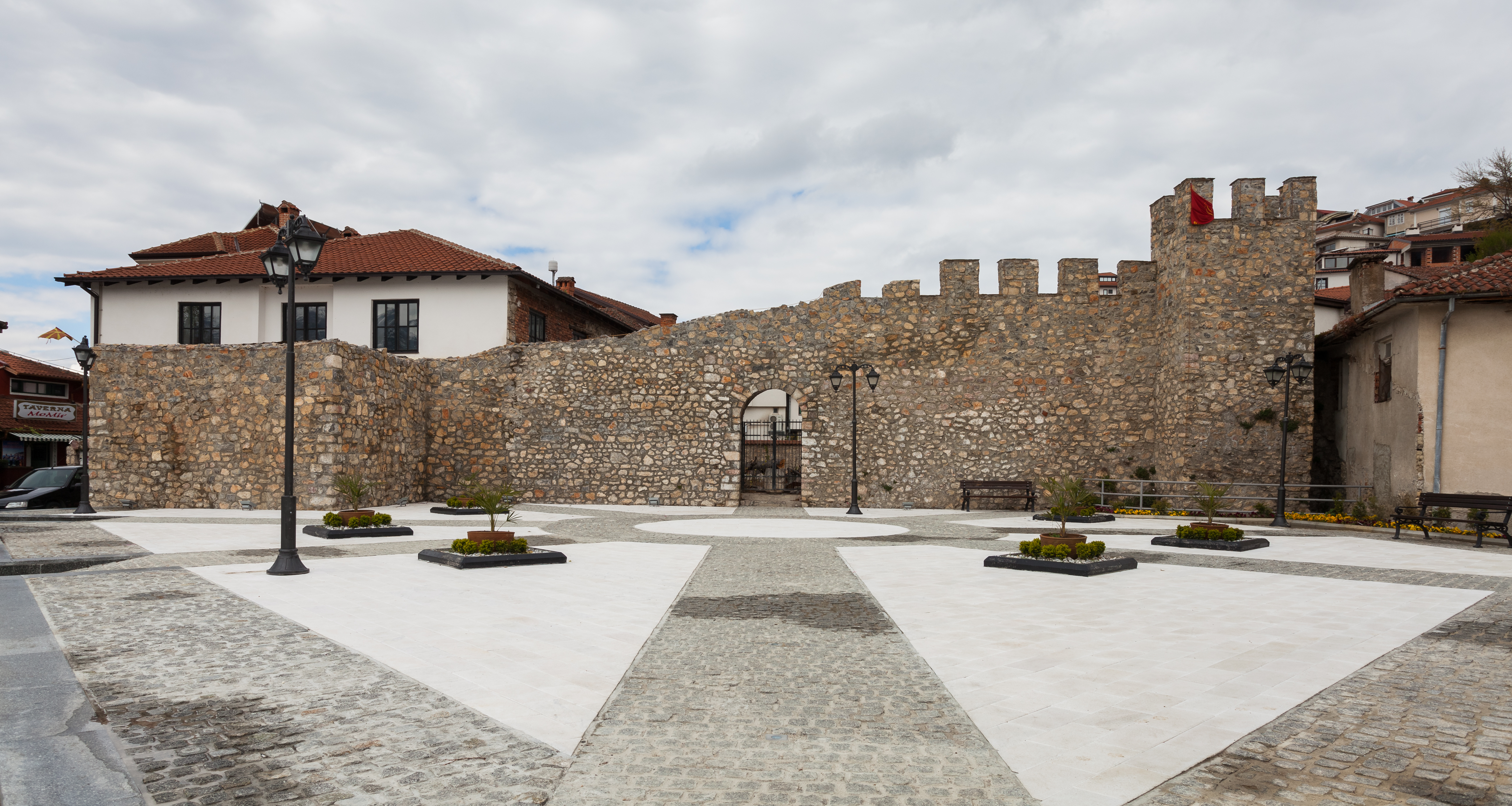 Old town wall, Ohrid, Macedonia